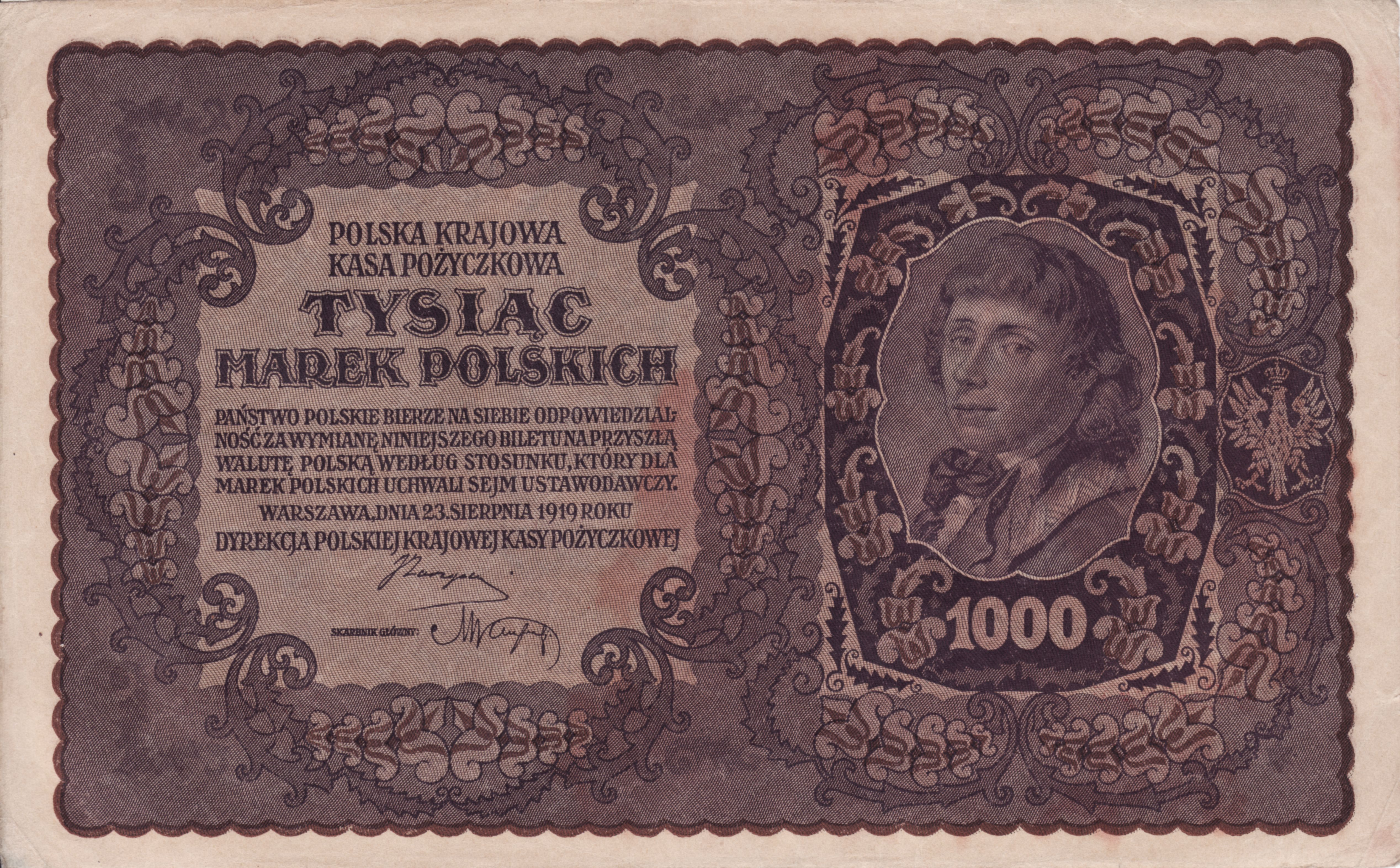 1000 marek polskich from 1919